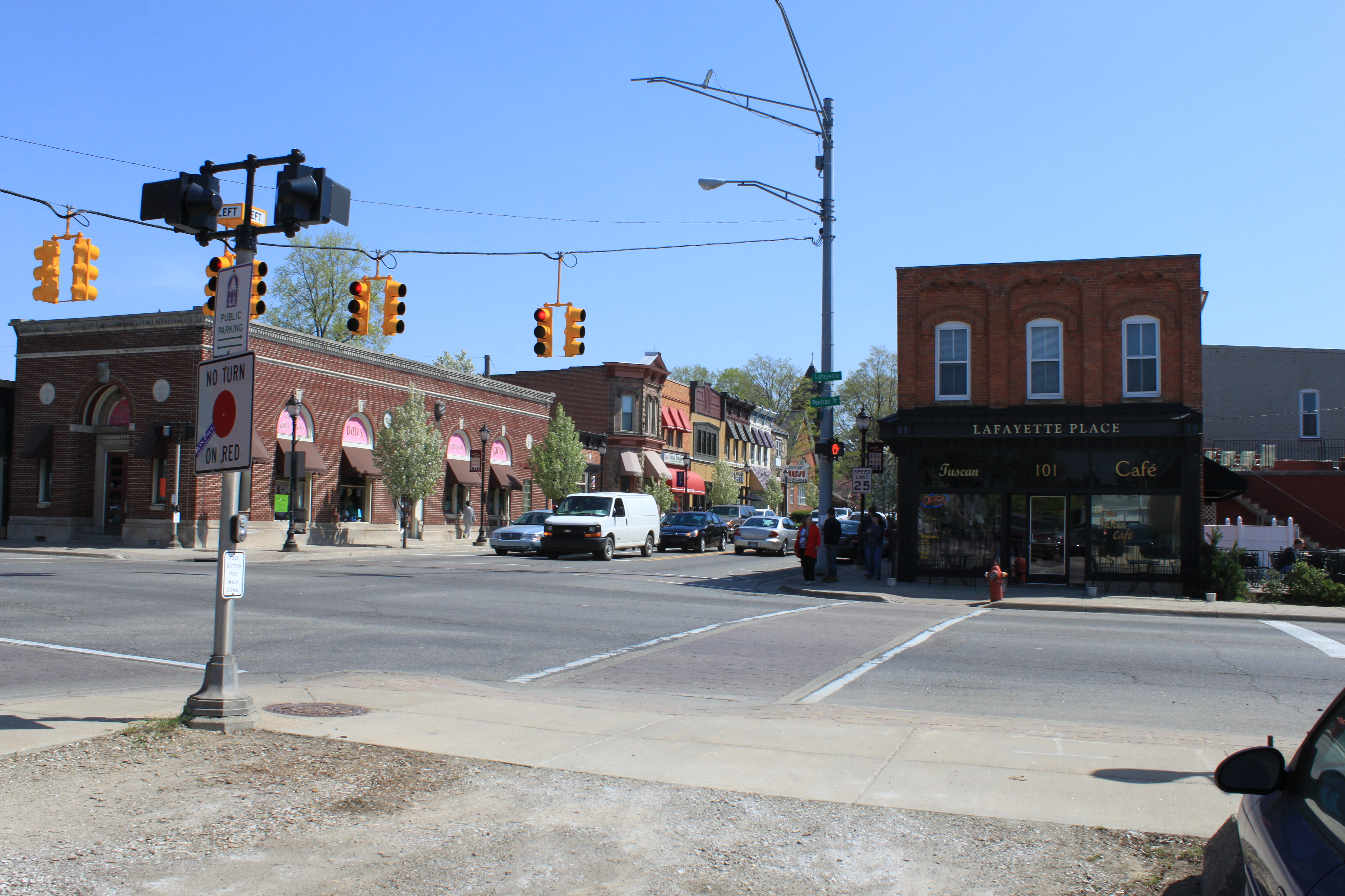 Downtown South Lyon, Pontiac Trail & Ten Mile Rd.